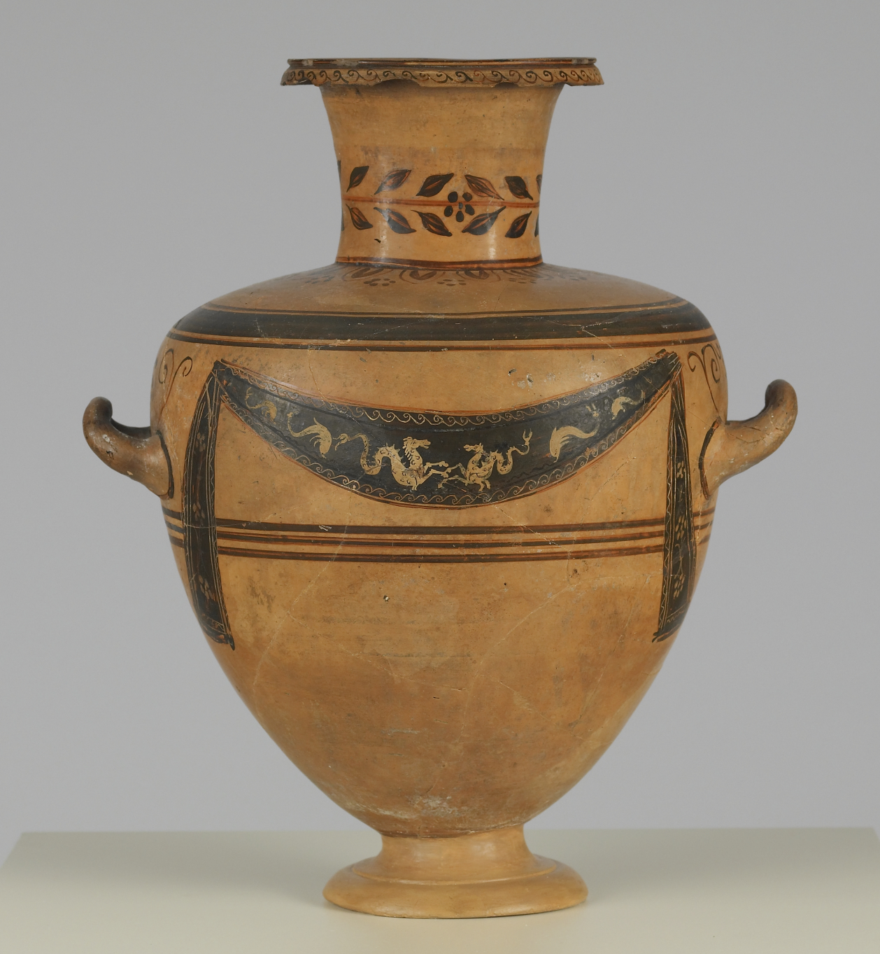 Hadra vases are named for a cemetery in Hellenistic Alexandria, where such vessels held the ashes of the dead. Though shaped like an Athenian "hydria," or water jug, its sparse decoration suggests inspiration from Macedonia, where metal "hydriae" draped with gold wreaths were deposited in royal tombs. The Ptolemaic rulers of Egypt after Alexander the Great's conquest were themselves Macedonians and may have inspired this custom.